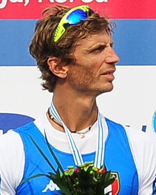 Elia Luini at the 2013 World Rowing Championships